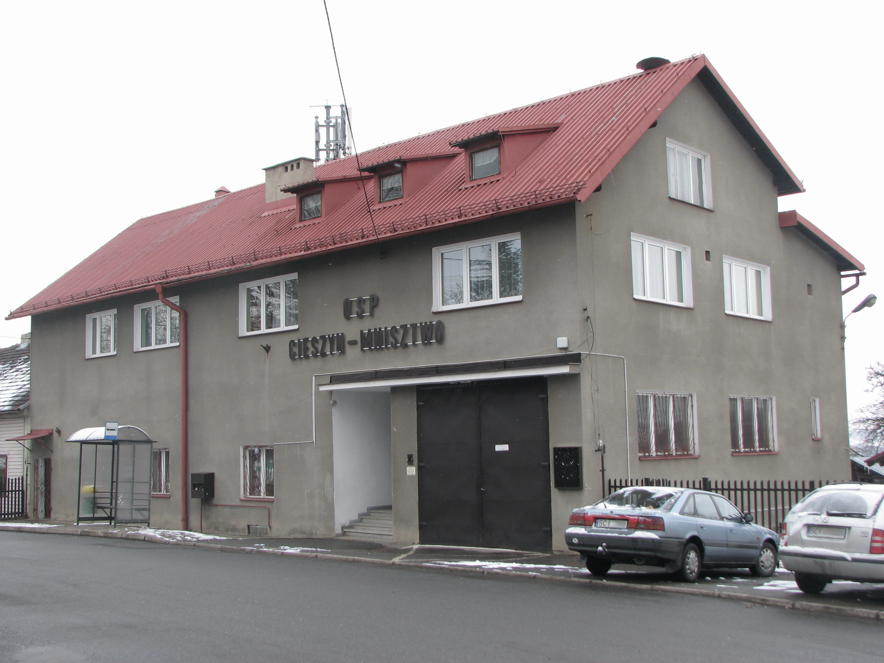 Fire station in Mnisztwo, Hallera Street in Cieszyn.